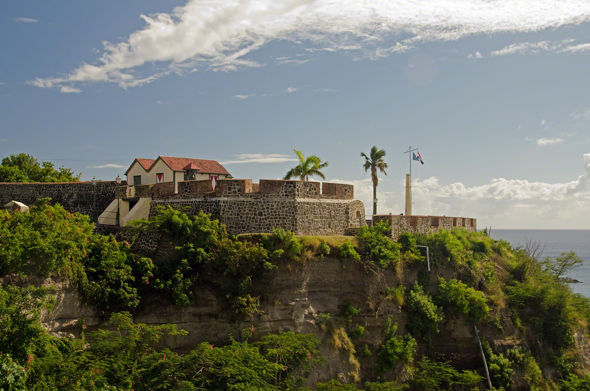 Fort Oranje from the Slave Path